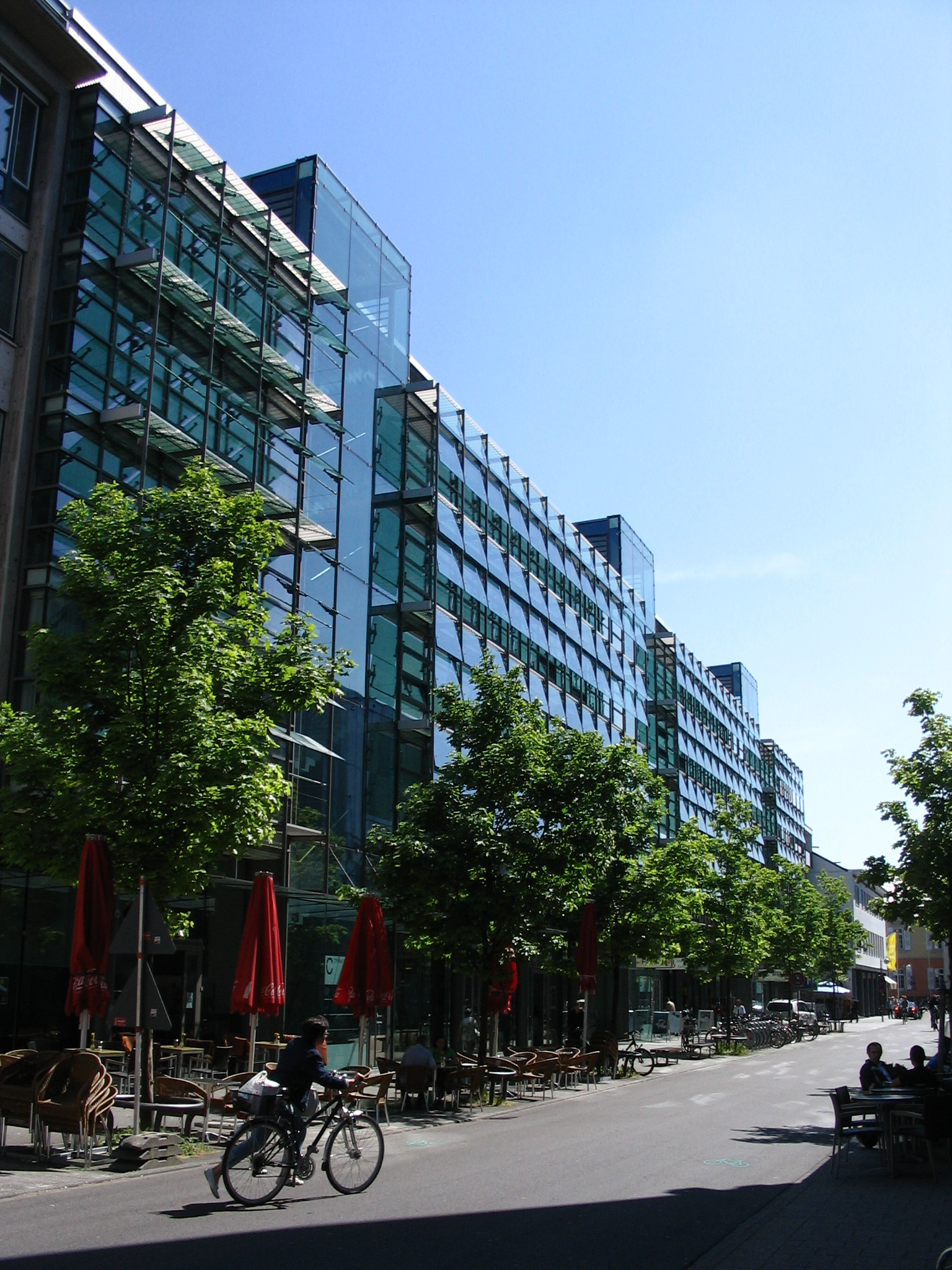 broadcasting studios of the broadcasting station bw family.tv in Karlsruhe, Erbprinzenstraße 4-12, Germany